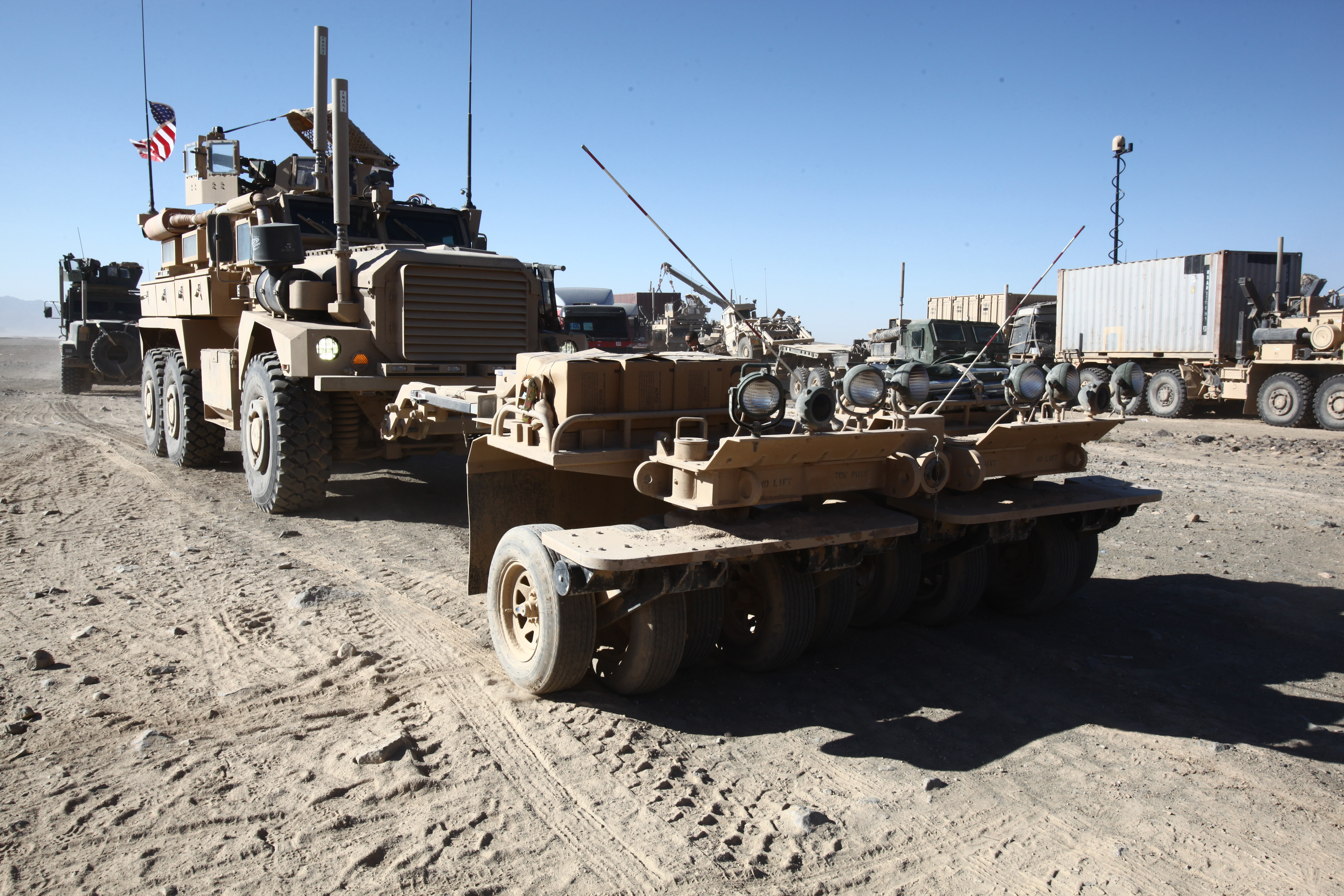 A Mine Resistant Ambush Protected (MRAP) vehicle is shown during a fuel escort mission outside Nawzad, Helmand Province, Afghanistan, October 16, 2011.General Support Motor Transport (GSMT), 2D Maintenance Support Battalion (2D MSB) conducted the fuel escort mission to resupply Forward Operating Edinburgh in support of International Security Assistance Forces (ISAF).